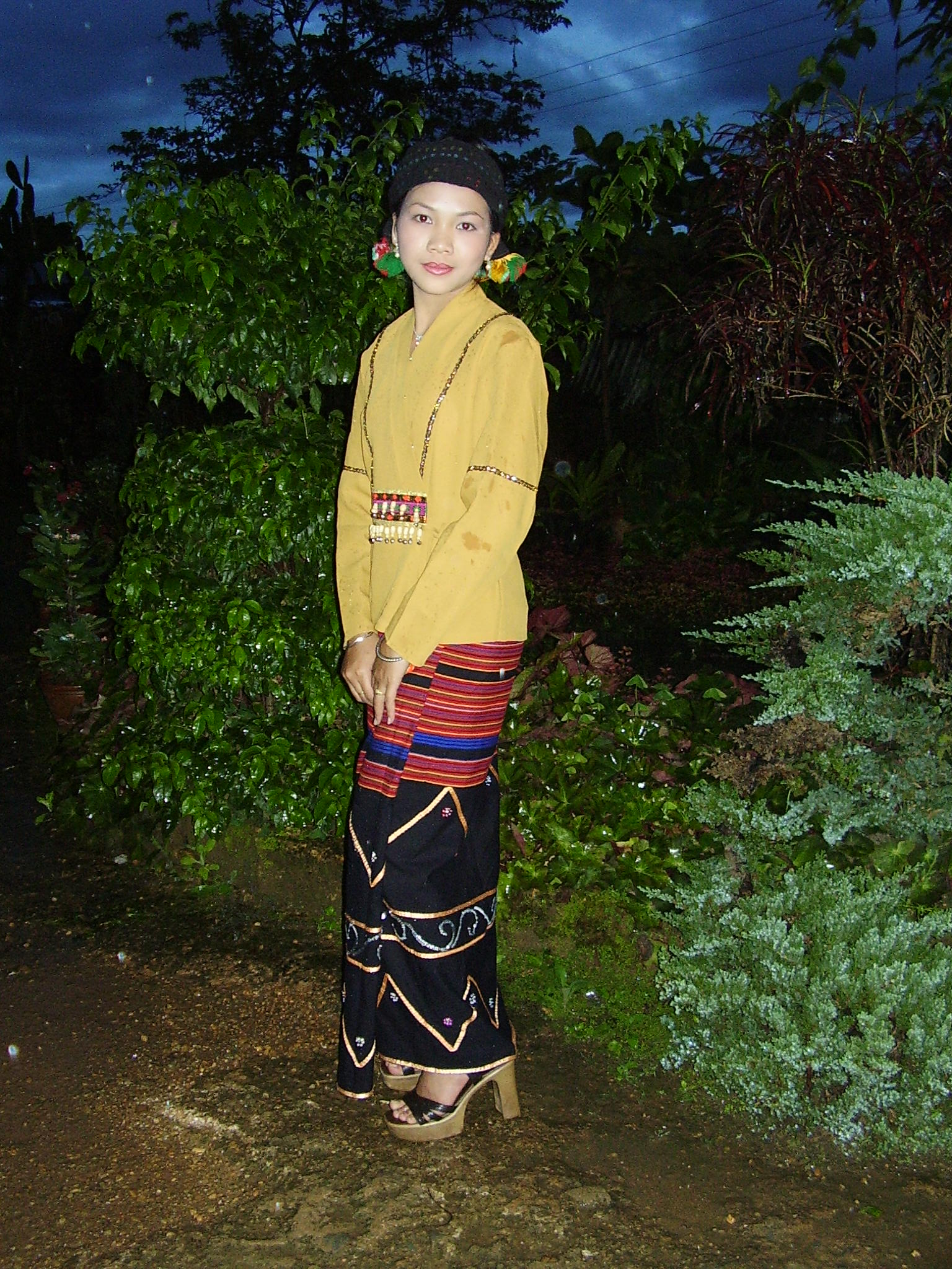 Picture of Shan ethenic by Jao Jai Lon